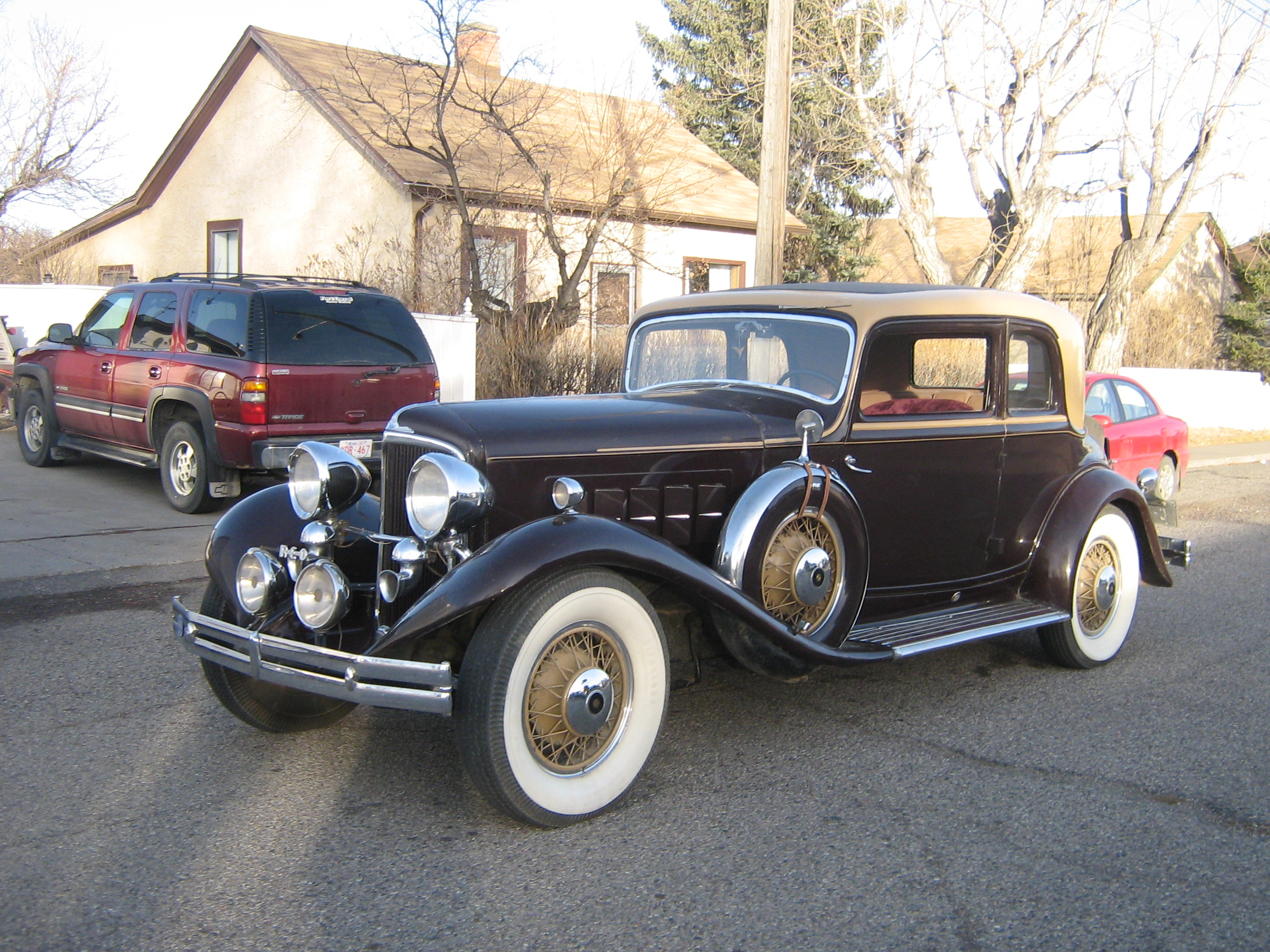 How often do you see a 1931 Reo Royale Victoria Eight parked on the street? That long hood contains a 125 hp, 358 cid straight eight engine and three speed gearbox. 135" wheelbase.